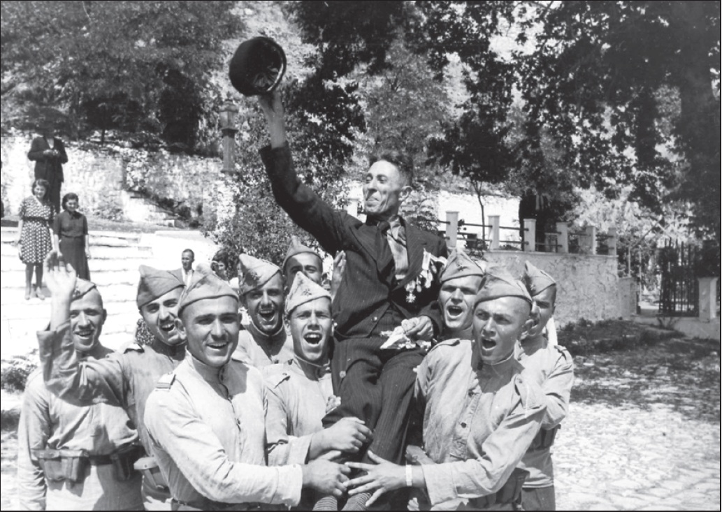 Meeteng of the IMRO chieftain Peter Lesev by local soldiers in Vardar Macedonia, after the annexation of the region from Bulgaria.